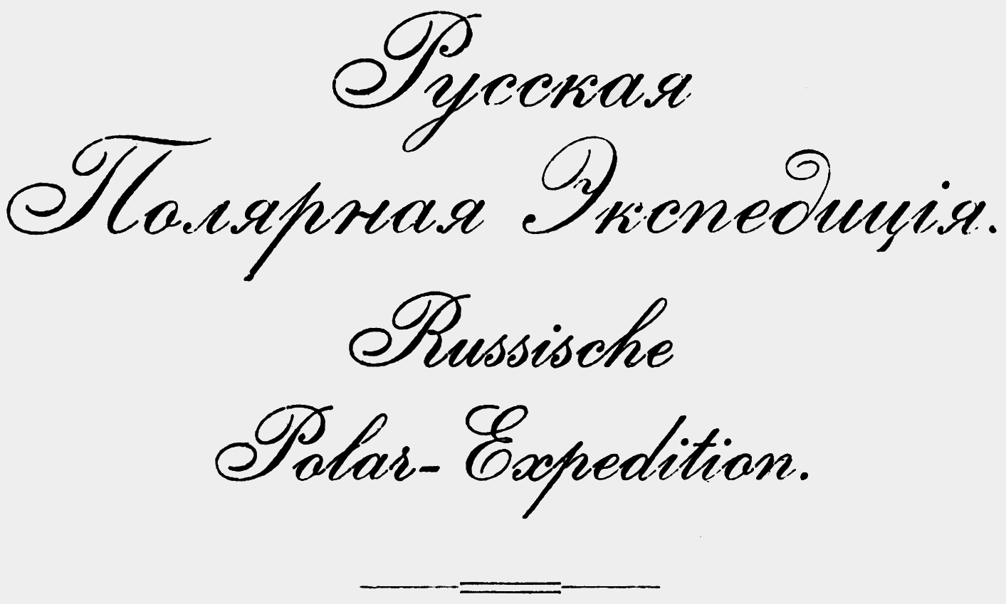 Russian Polar Expedition official Logo 1900